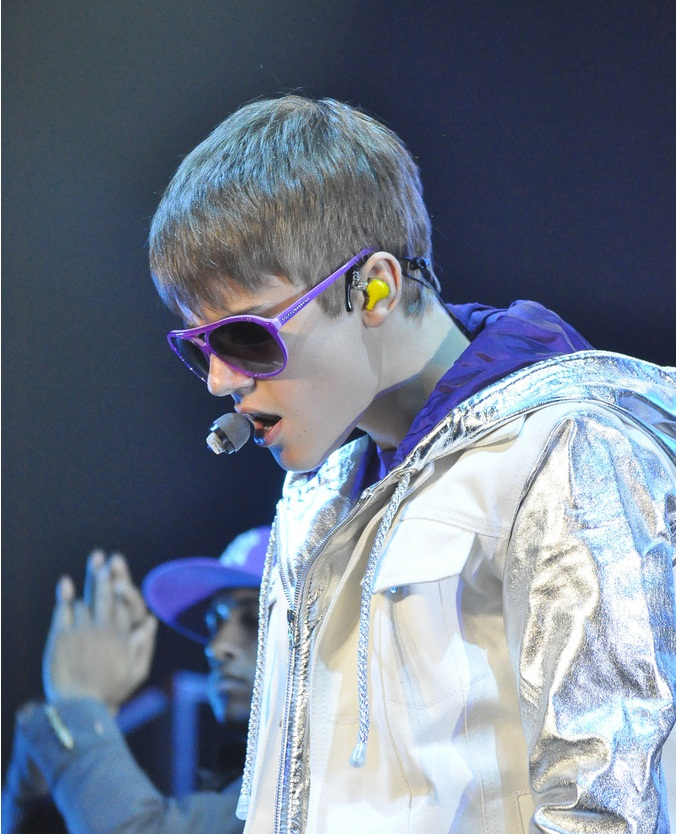 Justin Bieber at the Sentul International Convention Center in West Java, Indonesia